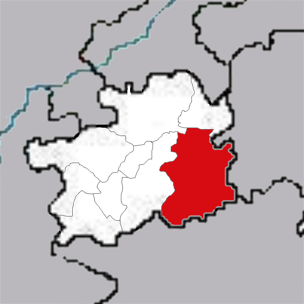 Maps of Guizhou Province of China